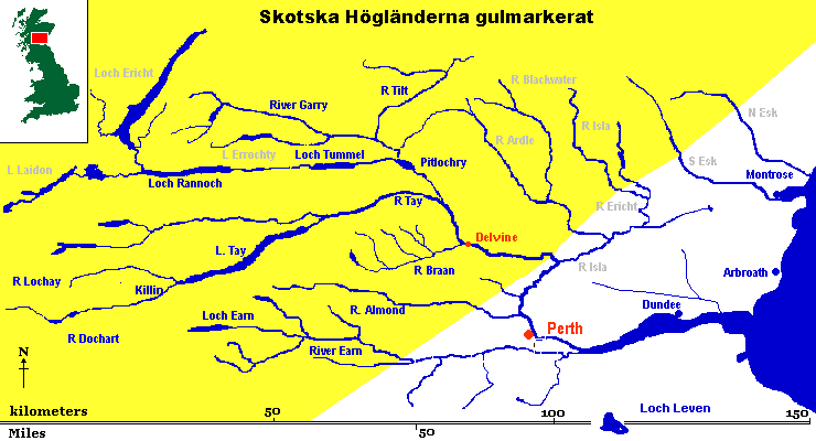 a map of Delvine, River Tay